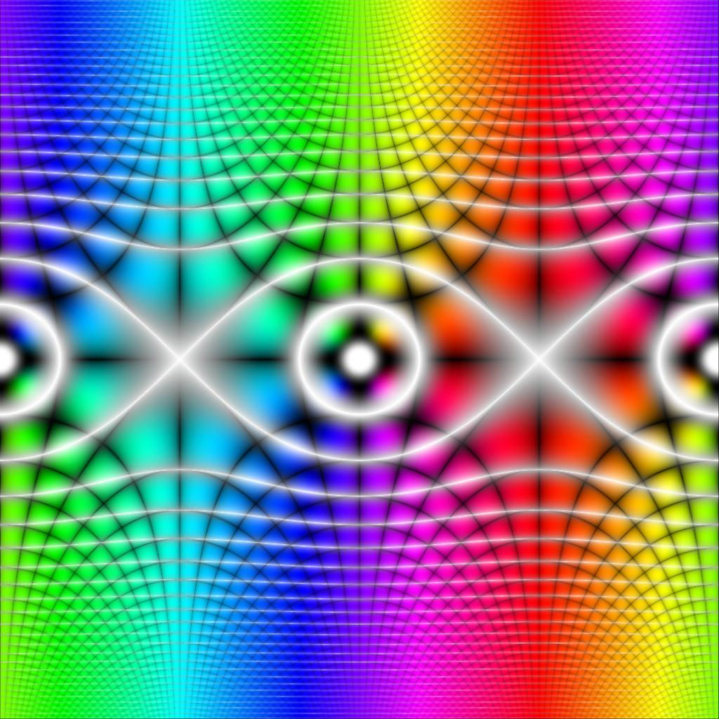 Domain colouring of sin(z) over (-pi,pi) on x and y axes. Saturation indicates absolute magnitude, brightness represents real and imaginary magnitude.